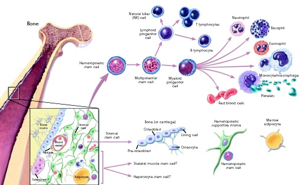 Pathway of stem cell differentiation